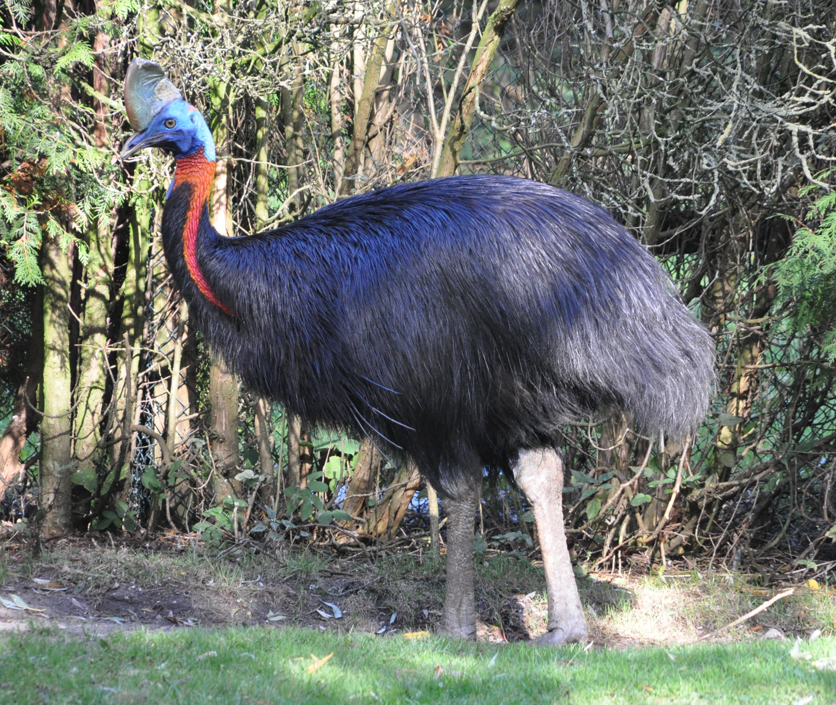 Single-wattled Cassowary(Casuarius unappendiculatus) in the Walsrode Bird Park, Germany.